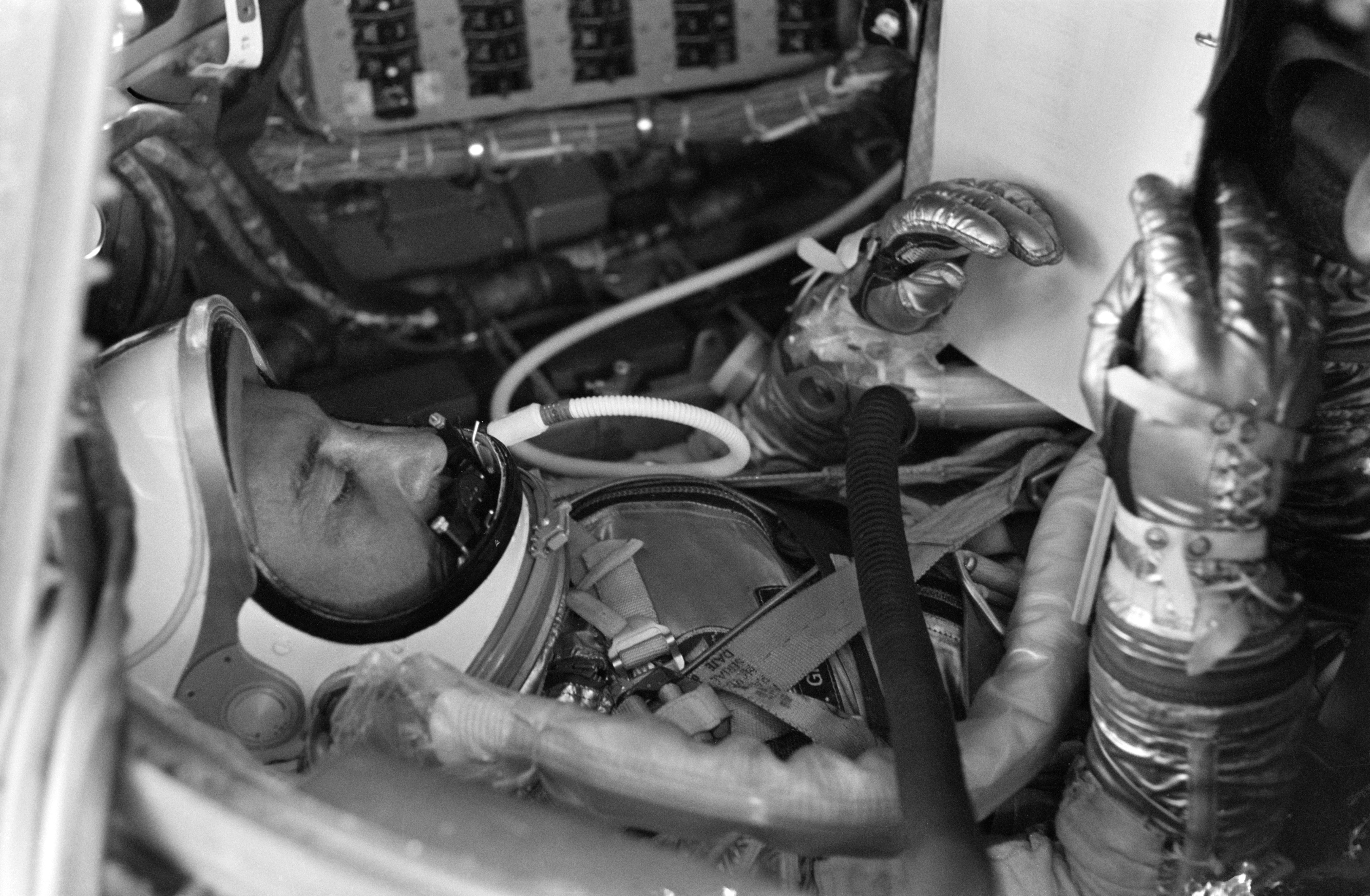 S64-10806 (21 July 1961) --- Astronaut Virgil I. (Gus) Grissom, pilot of the Mercury-Redstone 4 (MR-4) spaceflight, in his Mercury "Liberty Bell 7" spacecraft is checking his flight plan during prelaunch activities.